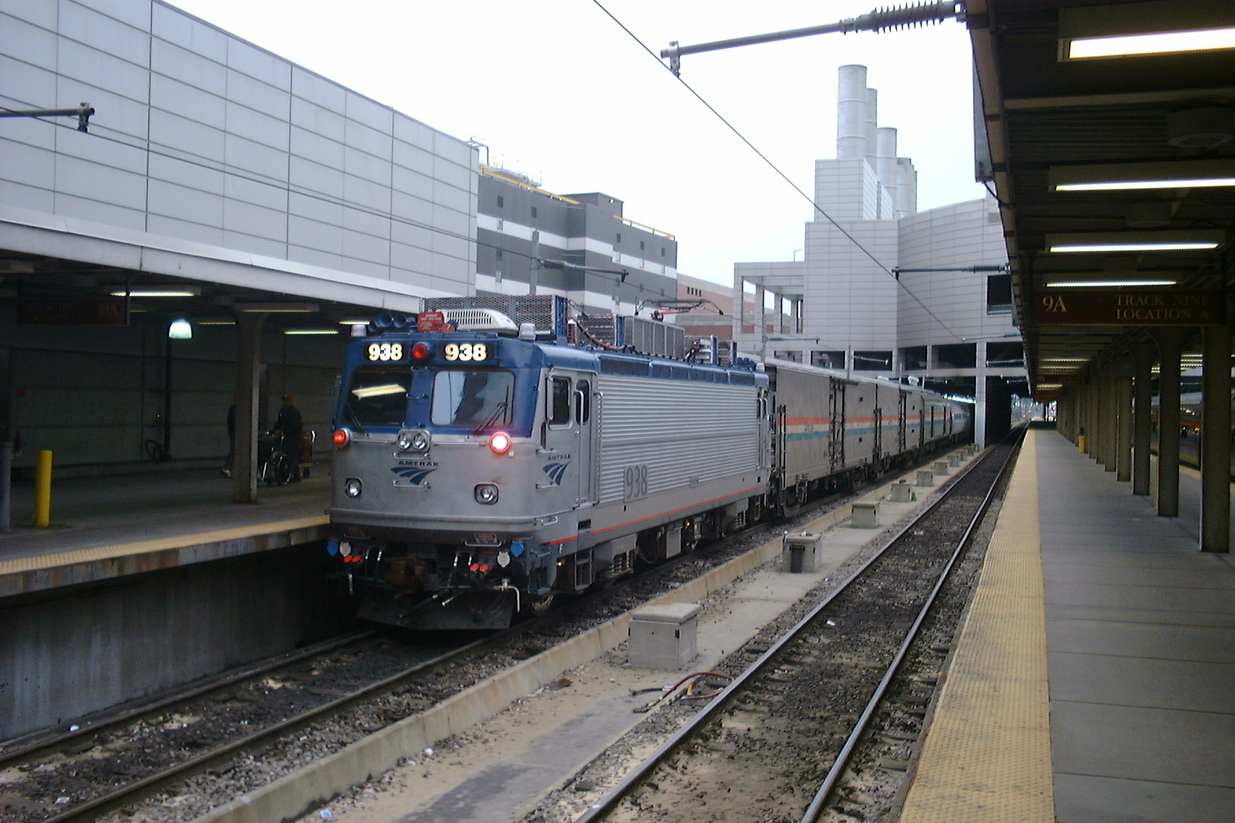 The Twilight Shoreliner at South Station in 2002